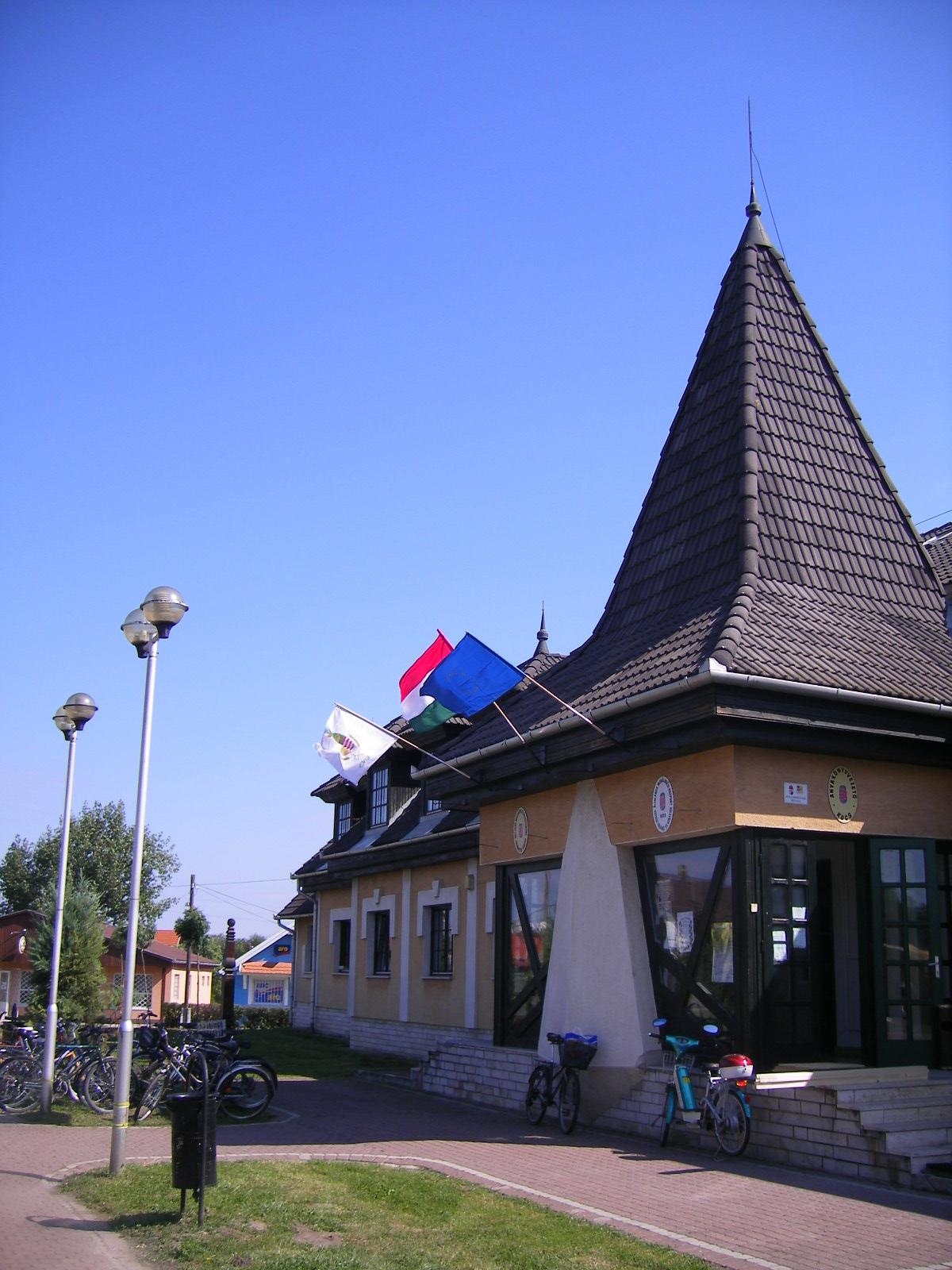 Kocs - tonw hall